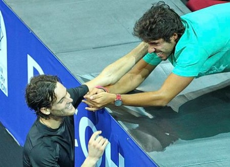 ATP 250 Kuala Lumpur